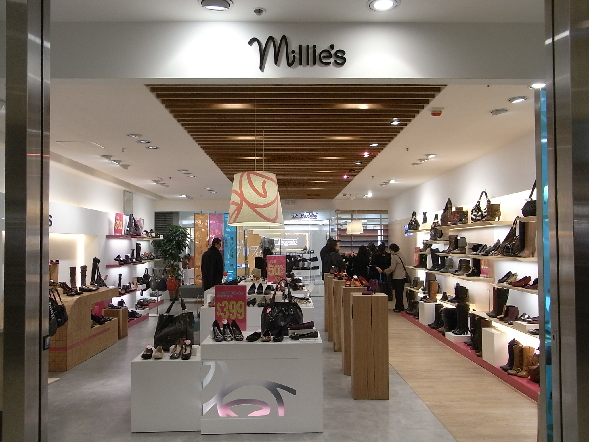 尖沙咀 新世界中心